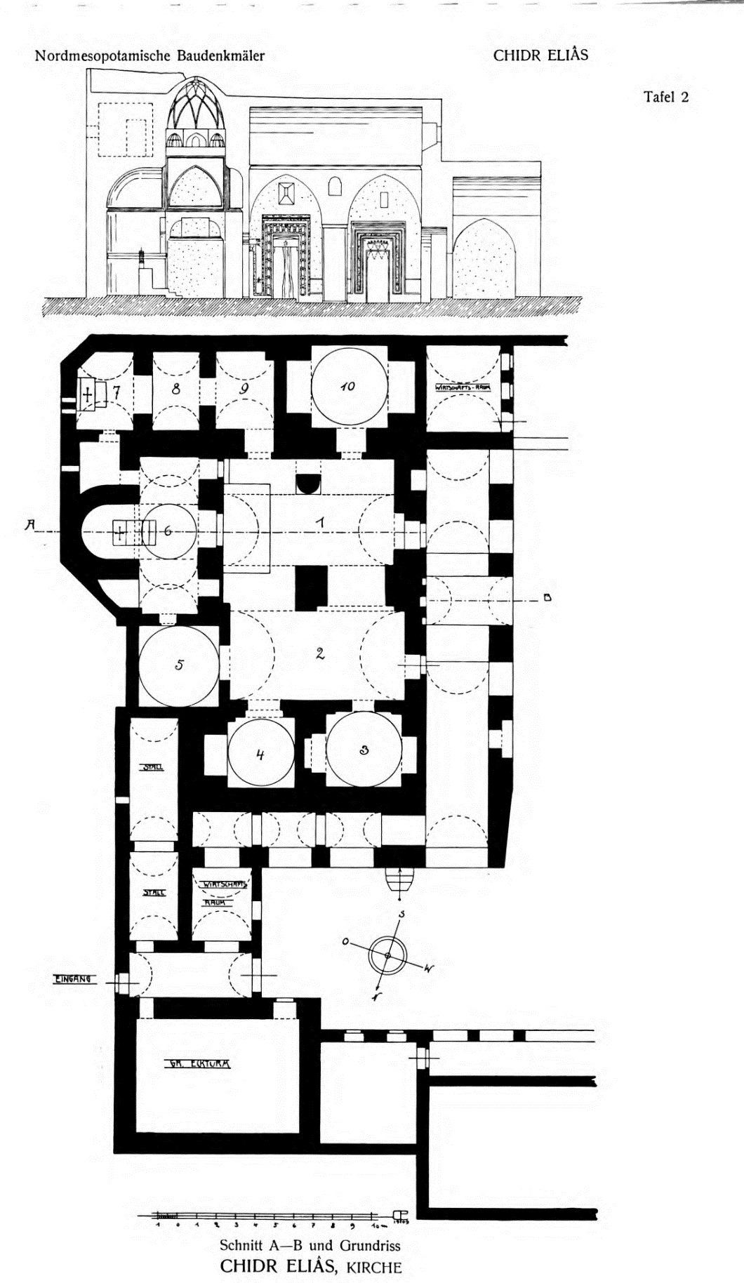 Plan of Chidr Elias = Mar Behnam Monastery Church